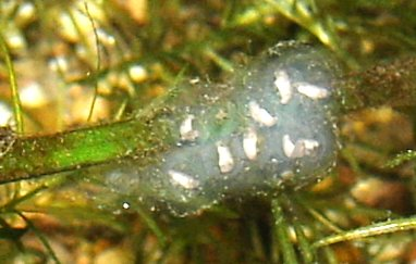 Eggs of Ambystoma mexicanum (Axolotl) on the stem of a water plant in Cologne Zoo, Germany